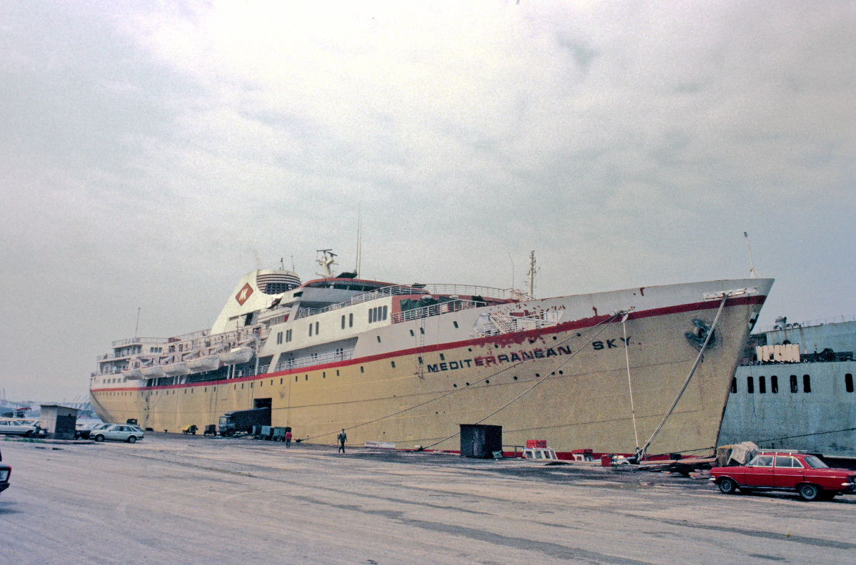 The cruise ship Mediterranean Sky during a renovation in Perama in 1986.